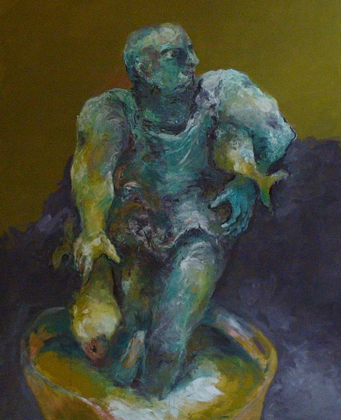 A painting by Bertrand Ney (Photo: François Besch)